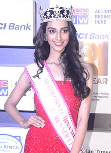 Meenakshi Chaudhary at Times Now NRI of the year award, 2018